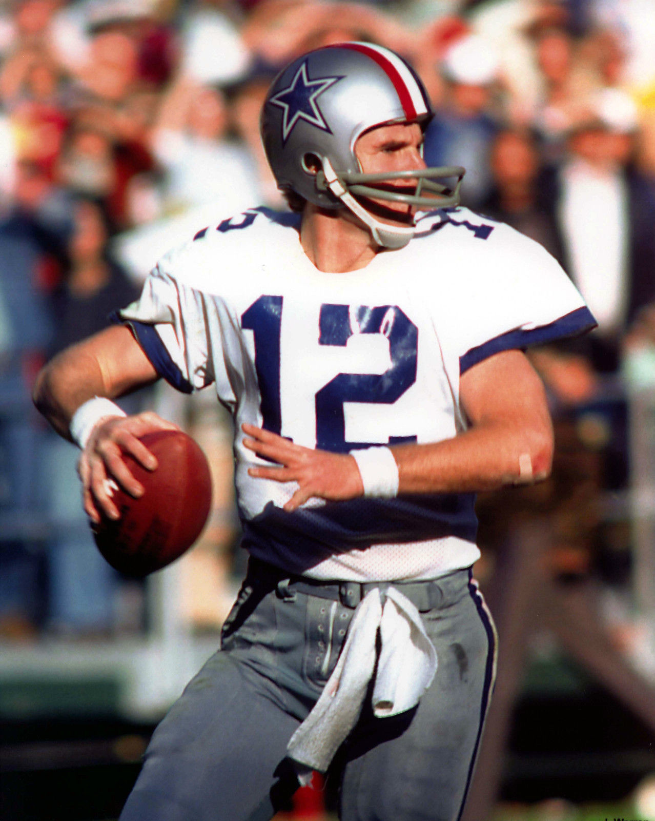 Former Dallas Cowboys' QB Roger Staubach, wearing the helmet with the red-white-blue stripes in commemoration of the US' Bicentennial.